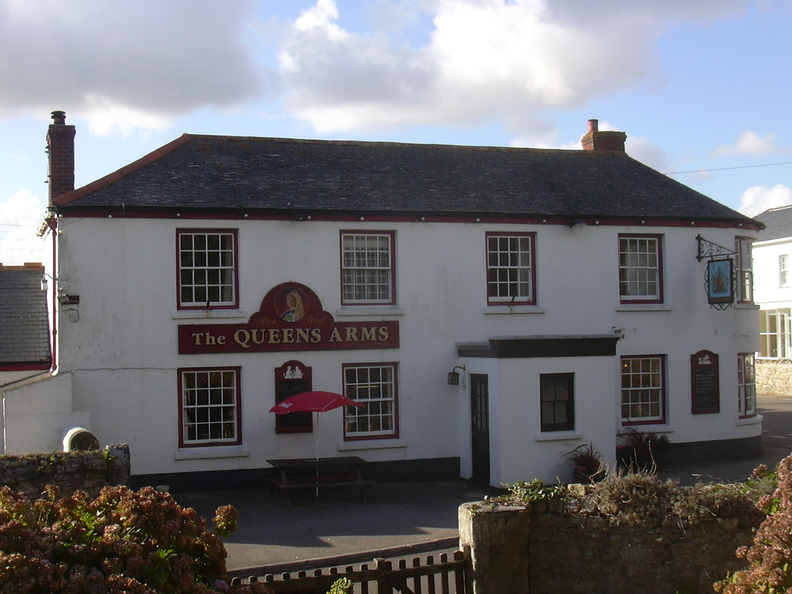 Breage village, Cornwall - The Queens Arms Pub.